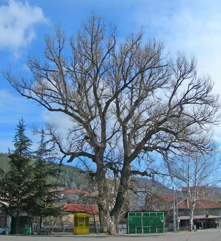 Secular White Poplar from Pasarel, Sofia district Векповен кавак в с.Пасарел, Софийско